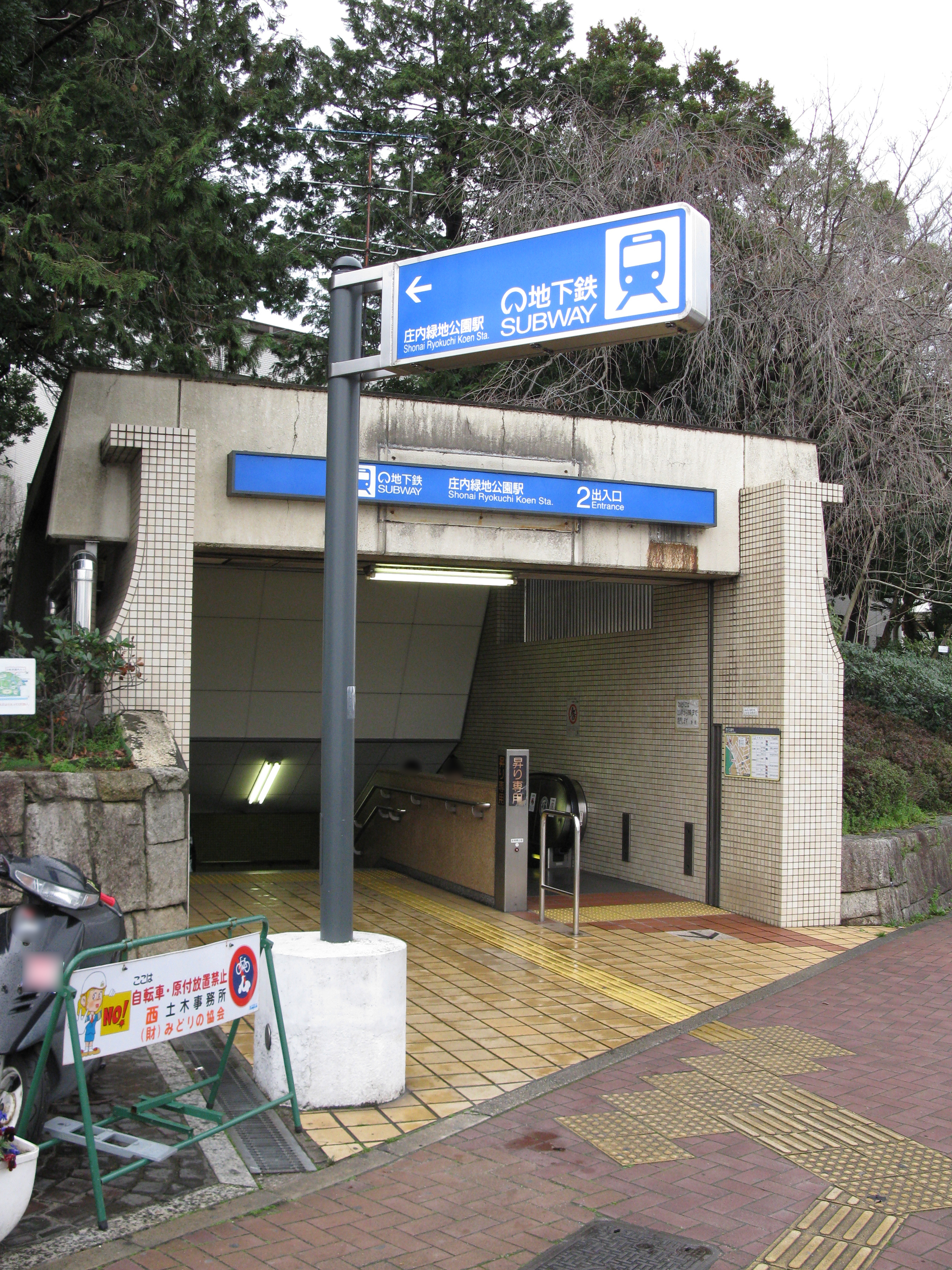 Shōnai Ryokuchi Kōen Station no.2 entrance (Nagoya Municipal Subway Tsurumai Line)